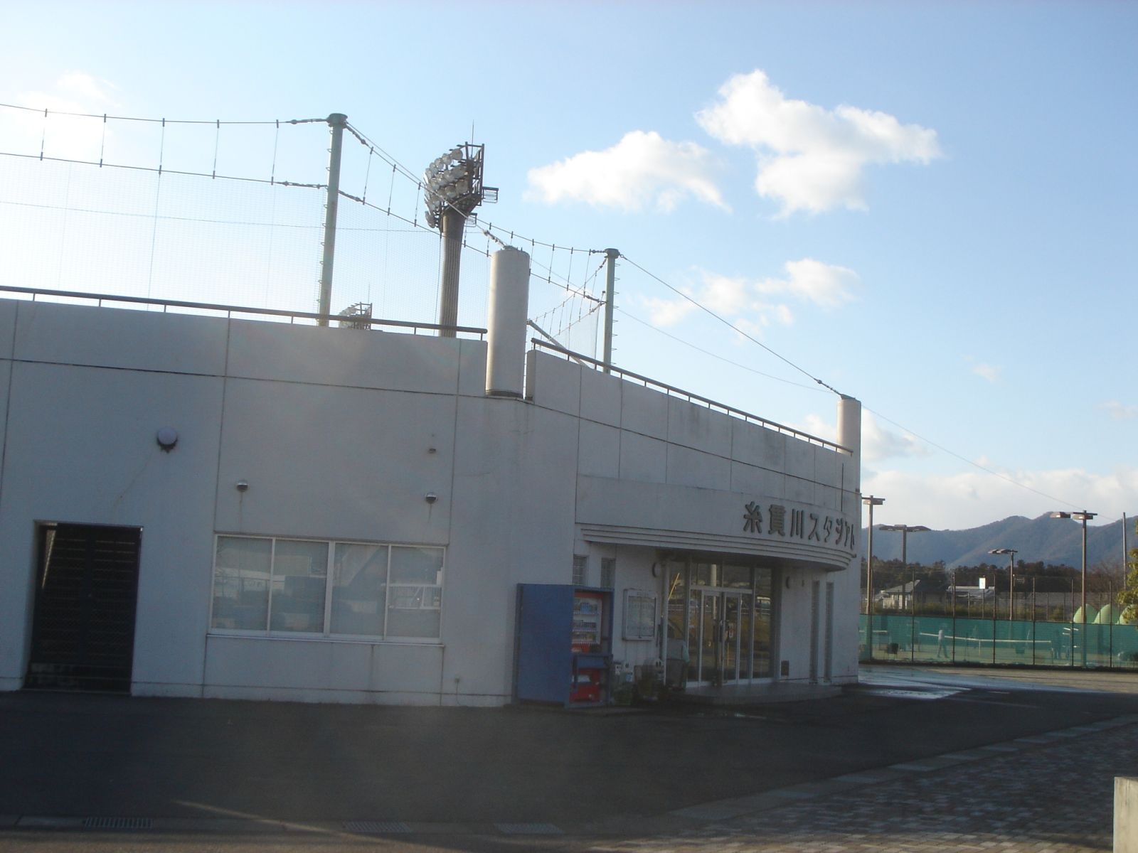 Itonukigawa stadium in Motosu city